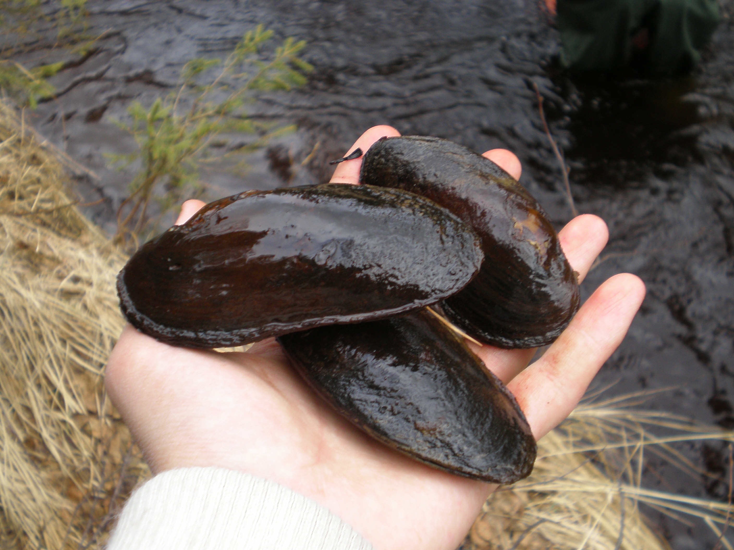 Three Mussels (Margaritifera margaritifera) in hand